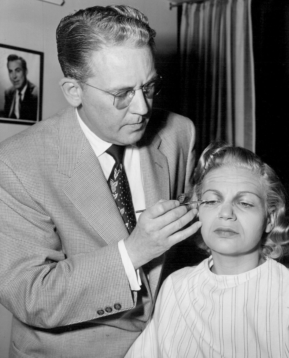 Photo of makeup artist John Sweeney applying makeup to actress Florence Halop for her role as "Mama" on the CBS comedy television series Meet Millie. There are no copyright marks on the item, which can be seen at the link.